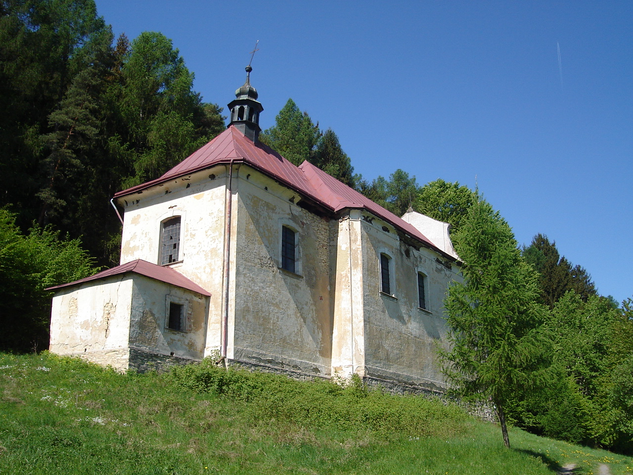 Church of the Annunciation in Luže ("Janovičky"), Chrudim District, Pardubice Region, Czech Republic.